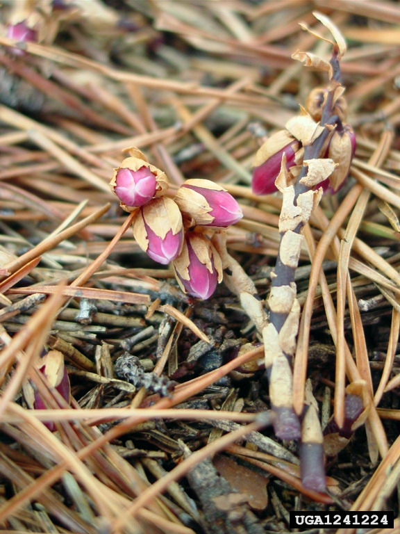 Monotropsis odorata, Rabun County, Georgia, United States